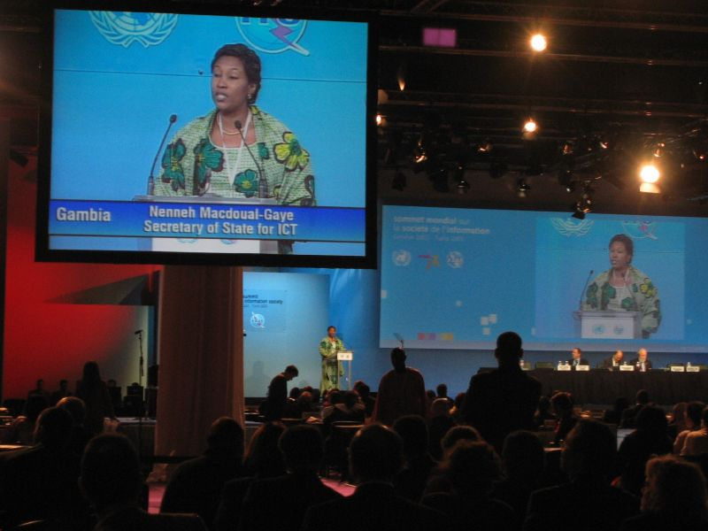 Neneh MacDouall-Gaye; Department of State for Communication, Information And Technology, Gambia world summit on the information society (geneva 2003- tunis 2005)